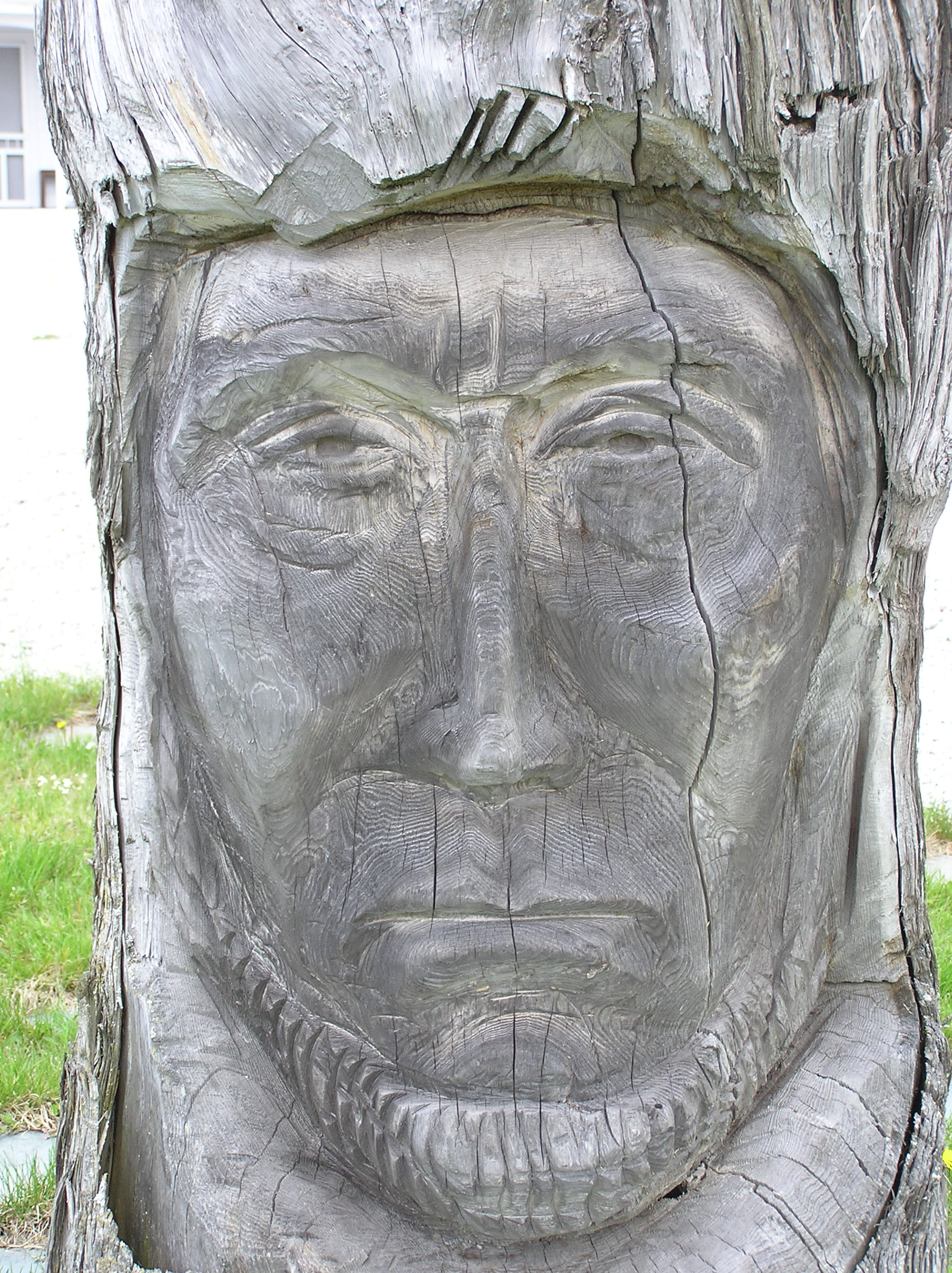 A carving of Marlboro Packard, Master Shipbuilder, this tree is found on the grounds of his home in Searsport, Maine. The tree was planted on the day Abraham Lincoln died.